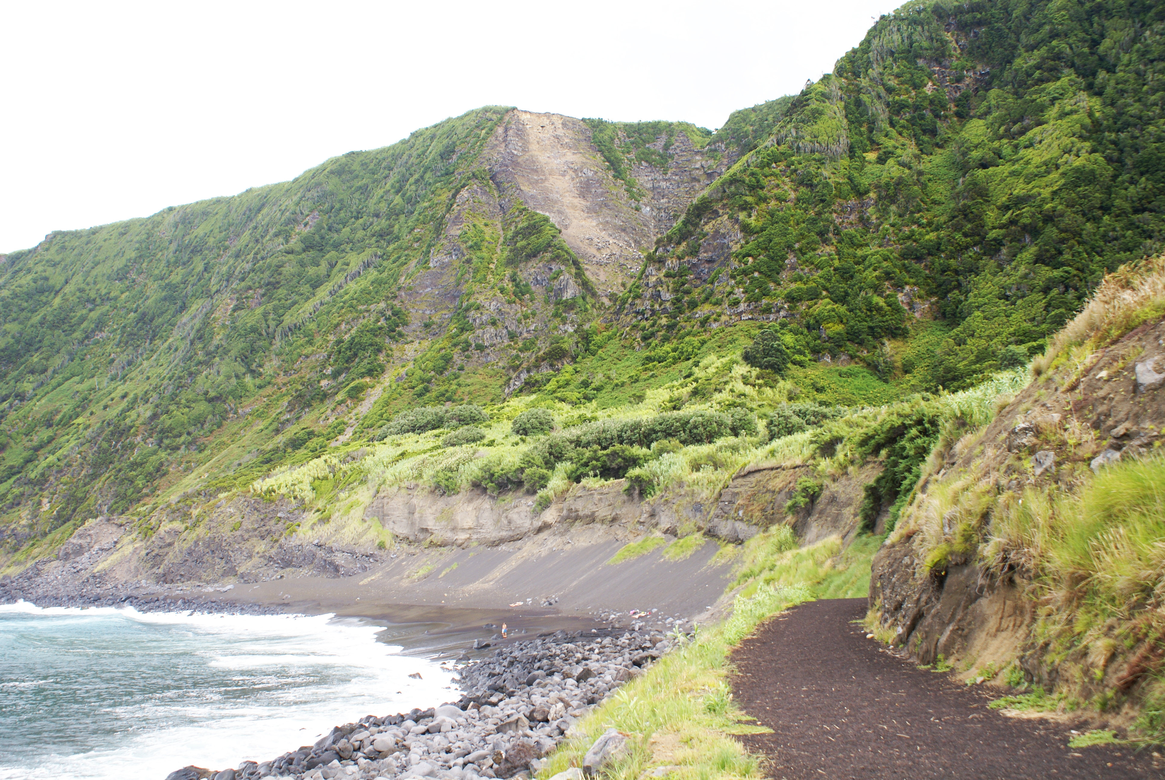 Sand beach along Fajã, in Praia do Norte, Horta, Faial (Azores), Portugal